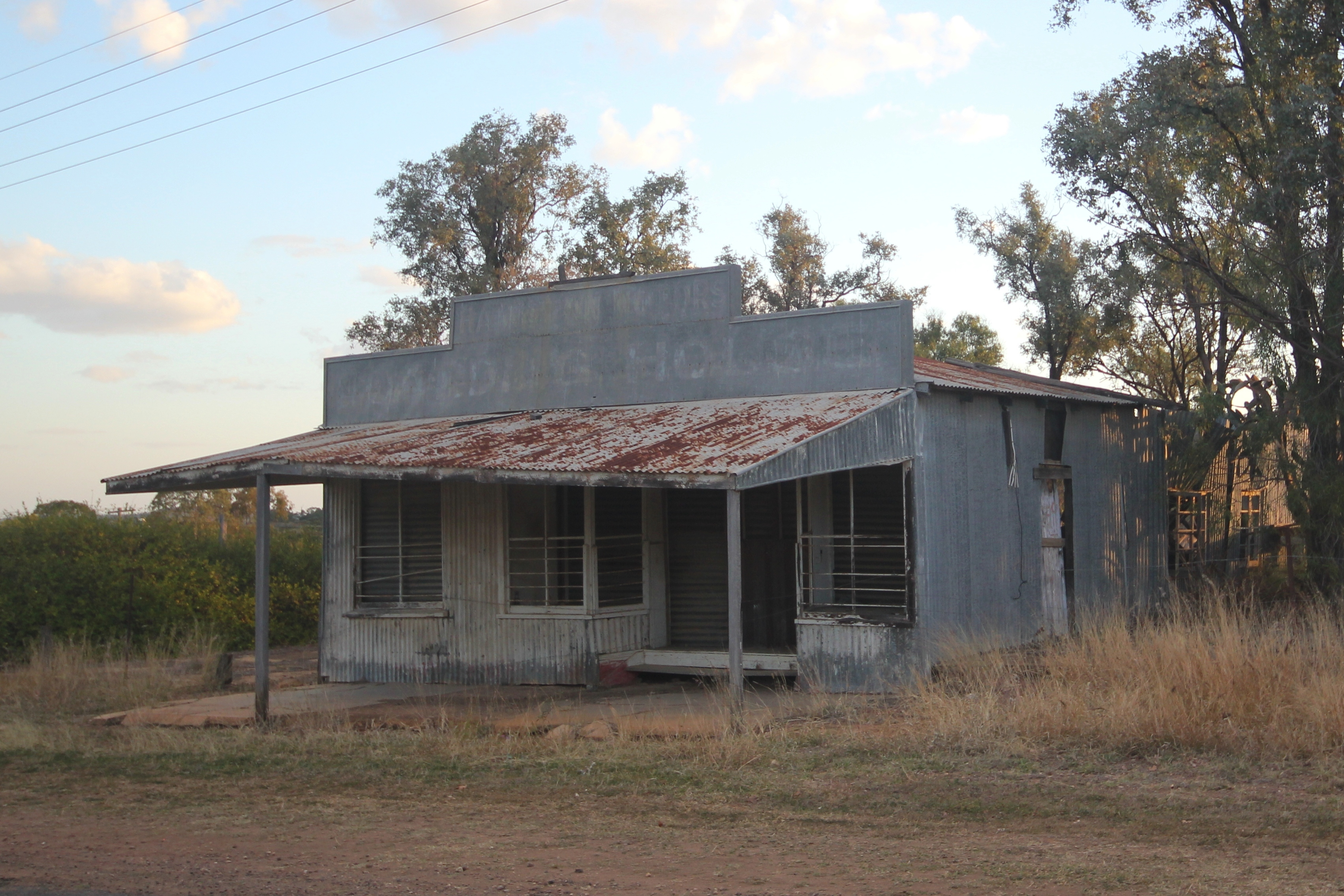 This was once a boarding house in Cracow, Queensland. Most of the paint is gone, but one can still barely read the sign.